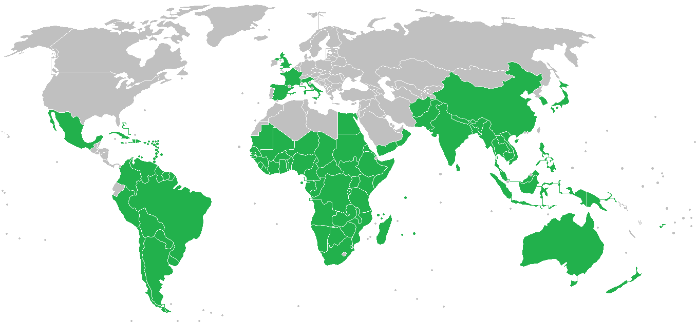 Distribution of Cleome gynandra, showing countries where it has been recorded, whether as native or exotic species[1] ↑ Cleome gynandra - L.. (1996-2012). Retrieved on 19 March 2019.